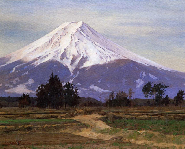 Early Spring (Fuji), by Wada Eisaku